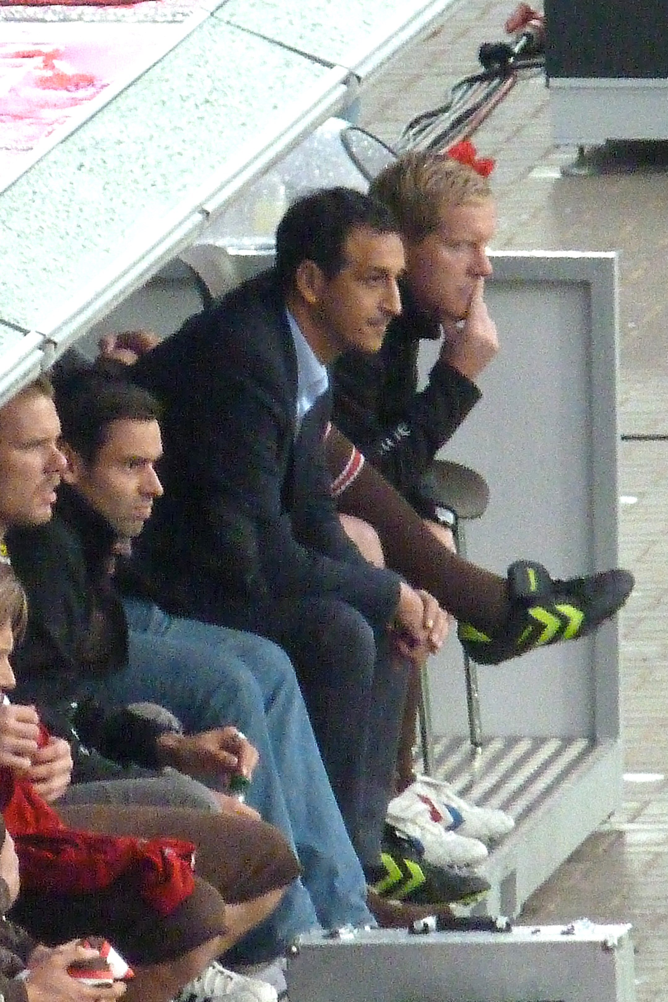 Rachid Azzouzi as Manager FC St. Pauli